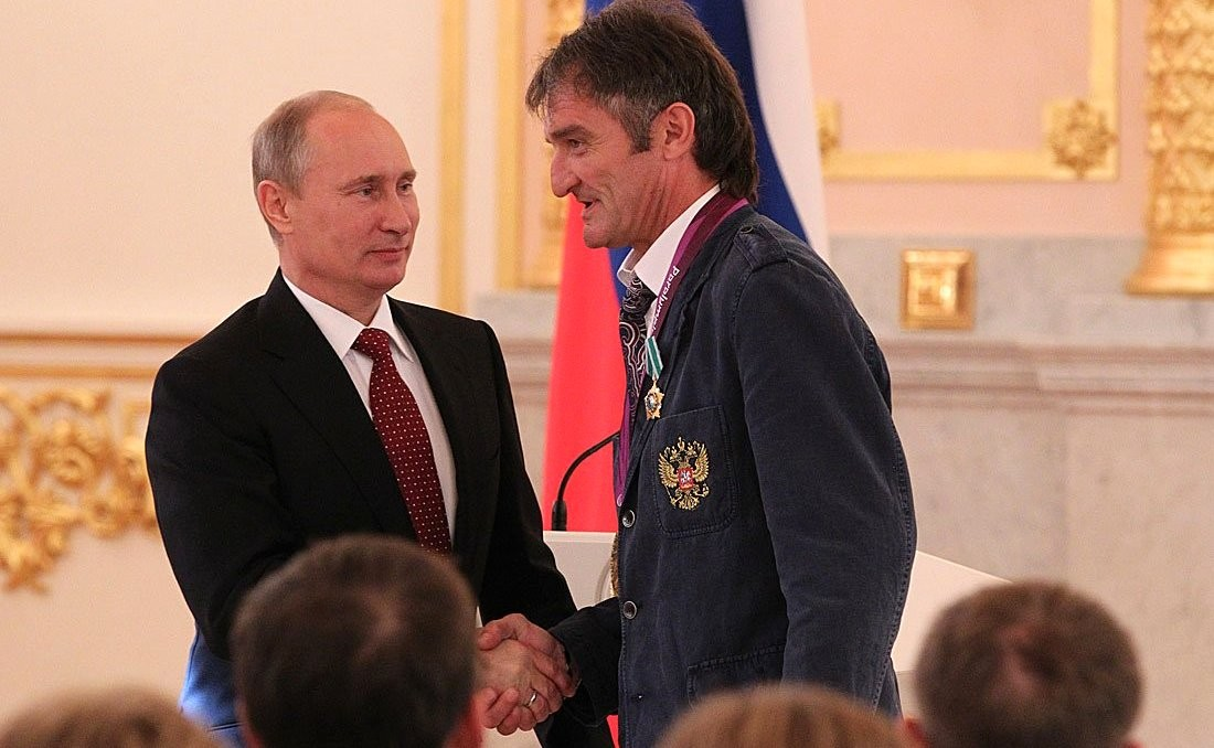 Presenting state decorations to London Paralympic Games champions and medallists. Order of Honour presented to XIV Paralympic Games champion Alexander Lekov.